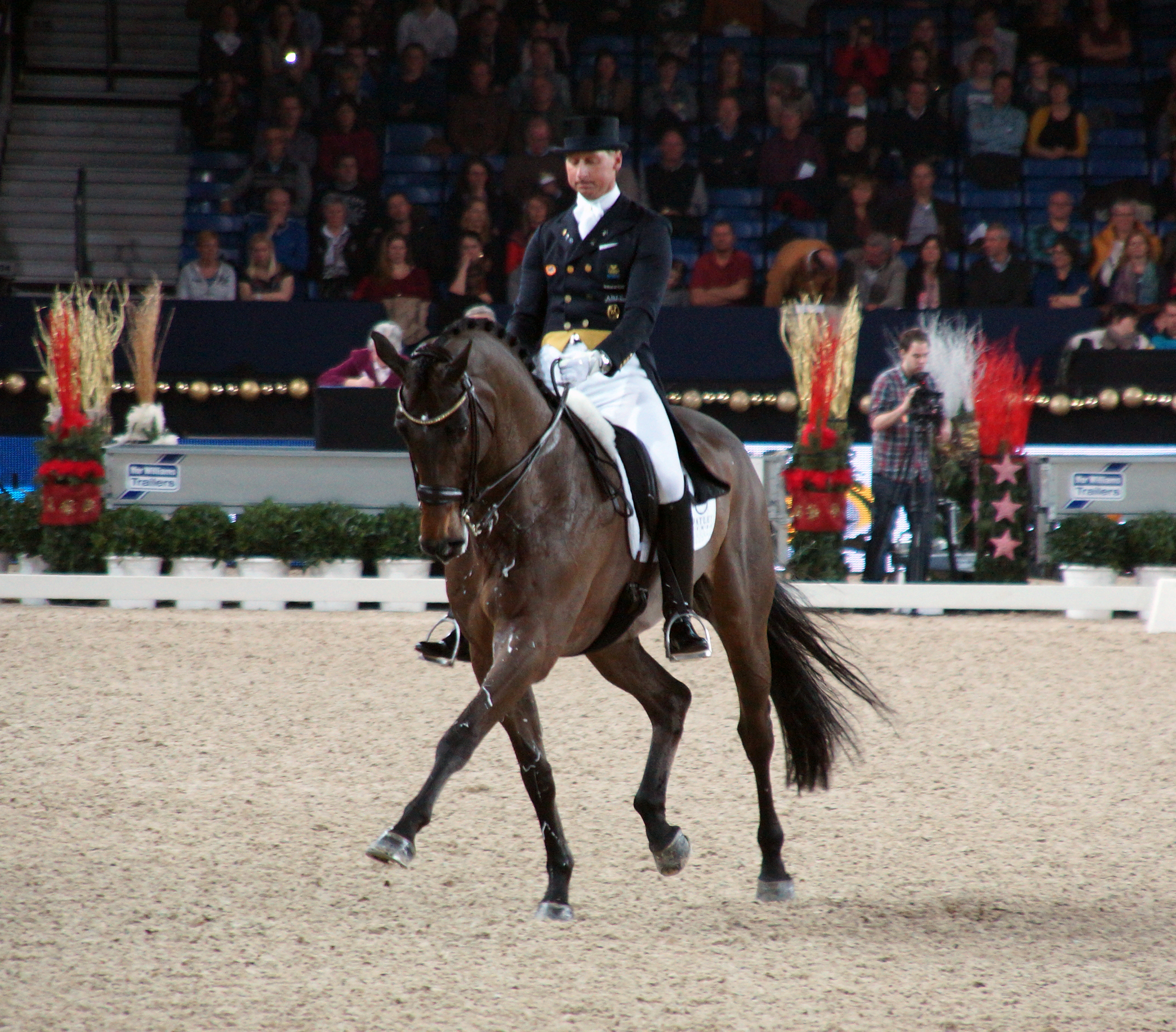 CDI 5* World Dressage Masters at 2013 Vlaanderens Kerstjumping - Jumping Mechelen: Patrik Kittel and Toy Story at Grand Prix Freestyle